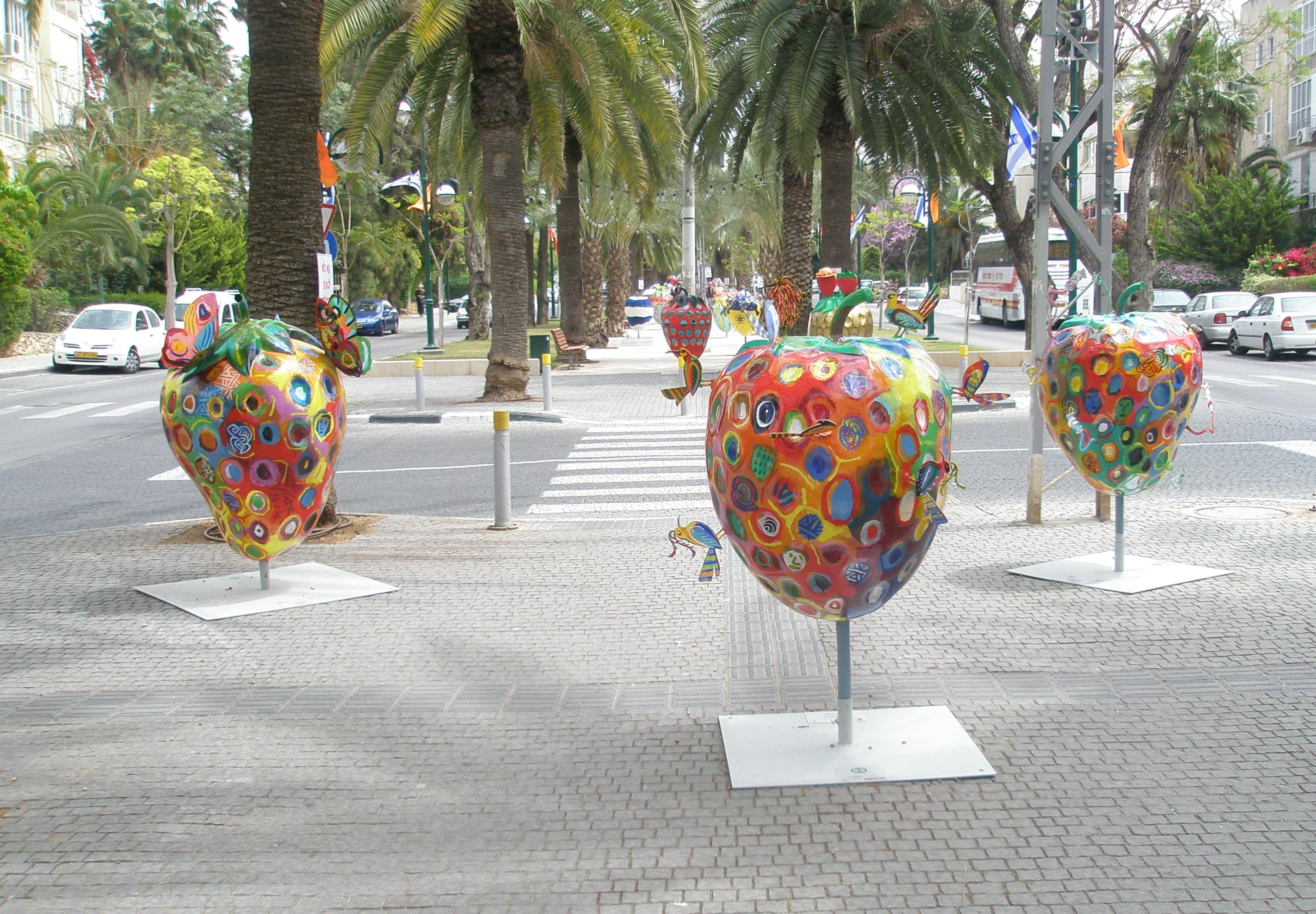 Three sculptures by Dudu Gerstein, at "Strawberries at Ramat Hasharon" exhibition